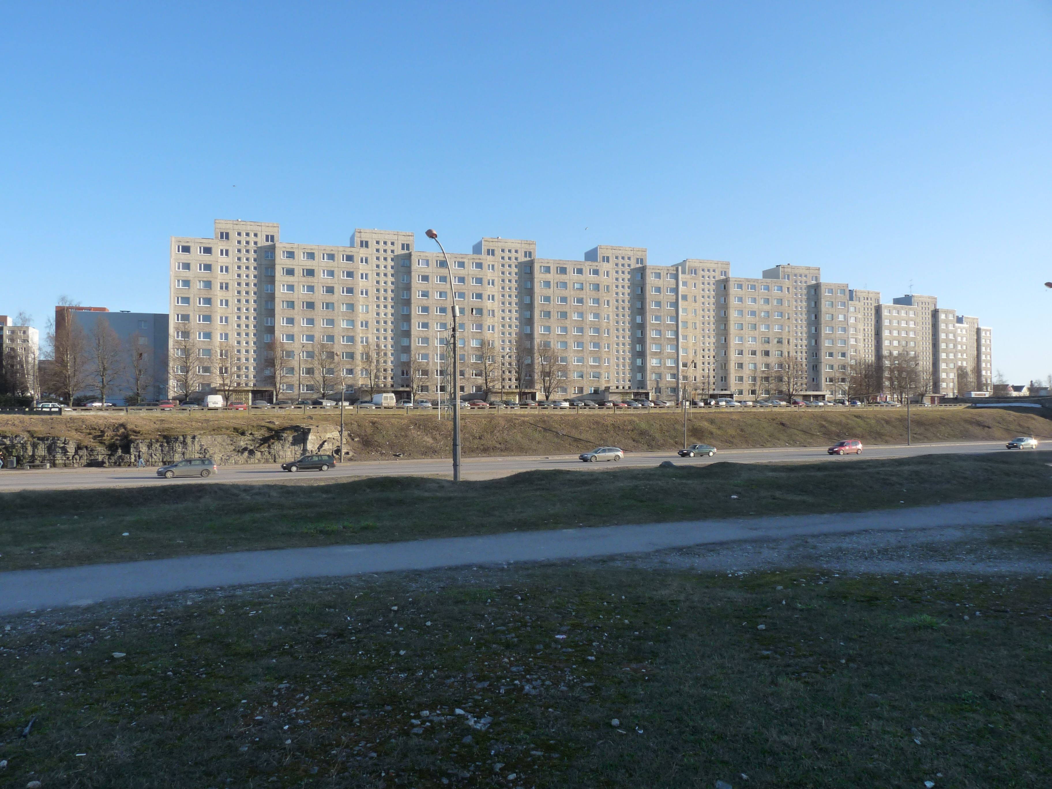 Original 1-515/9Ш apartment blocks in Paekaare street built by original design: house has 9 storeys each storey has 4 flats one of them was 1-roomed (right from elevator) one of them was 3-roomed (right from elevator) two flats were 2-roomed (both left side from elevator) Such type apartment blocks you can find everywhere in ex-USSR countries as they were widespread type in USSR.